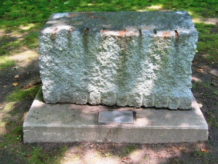 Legacy I Time Capsule Marker Stone